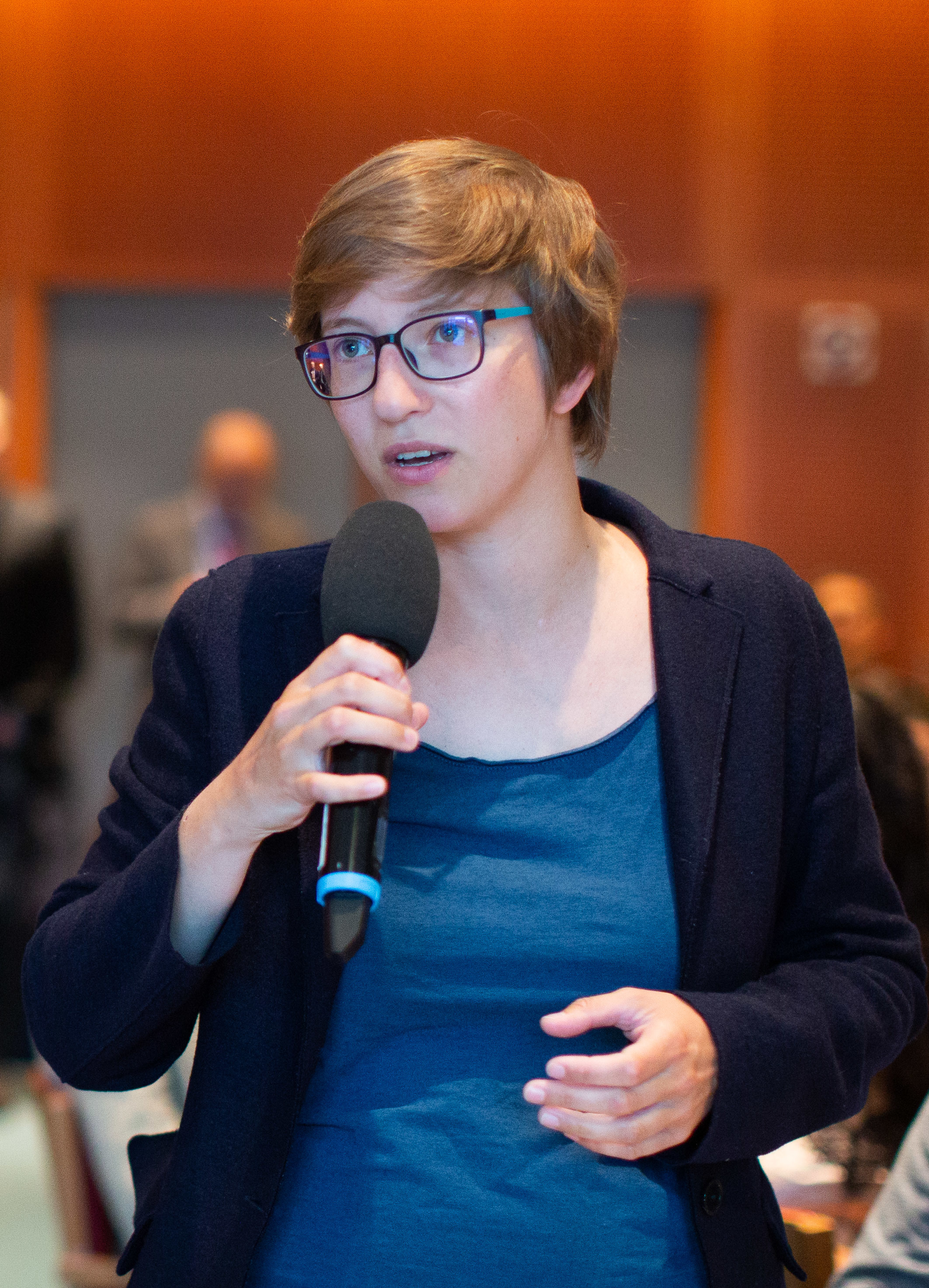 Julia Reda spoke during a parliamentary breakfast meeting in the European Parliament in Brussels on september 6, 2018. The breakfast was hosted by MEPs Max Andersson (Greens/EFA), Daniel Dalton (ECR) and Petar Koroumbashev (S&D).